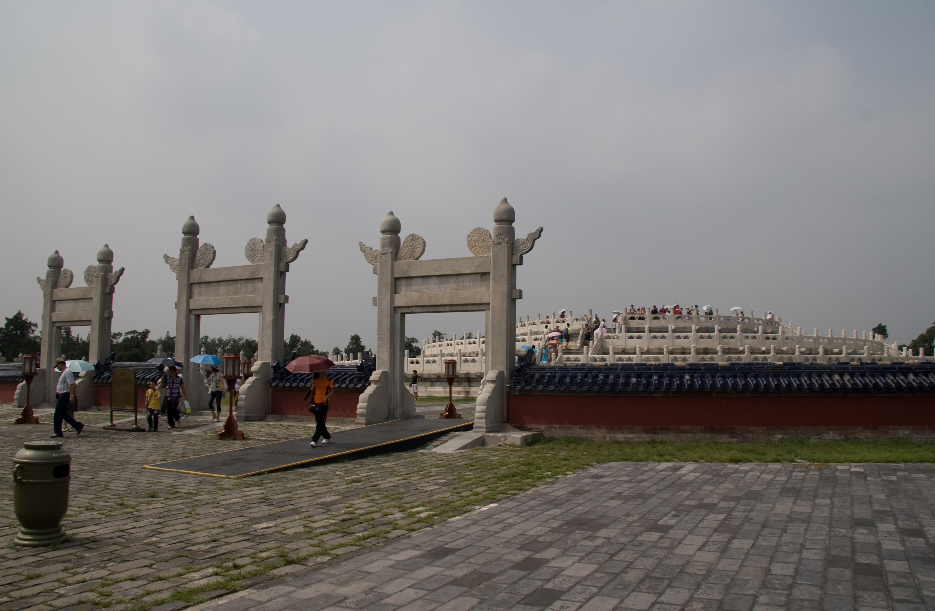 Temple of Heaven, Beijing, China